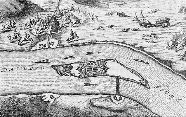 17th- or 18th-century map of Ada Kaleh.